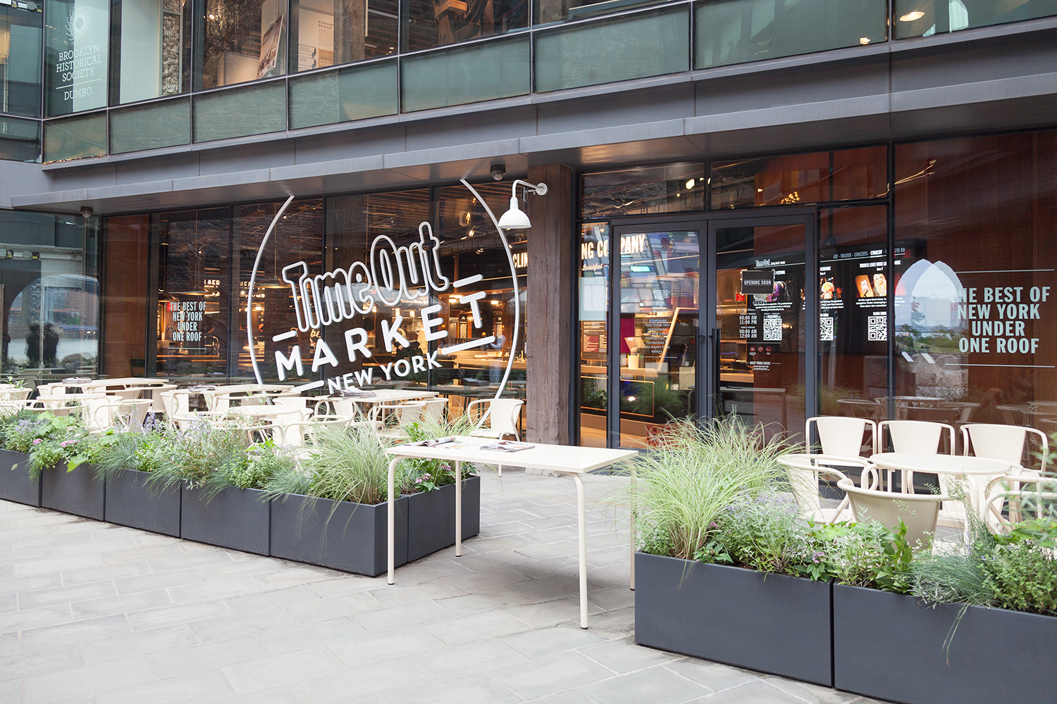 Time Out Market tables in the open-air courtyard of Empire Stores (Photo gallery of DUMBO, Brooklyn)